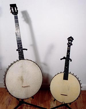 A Stewart banjeaurine and Stewart cello banjo